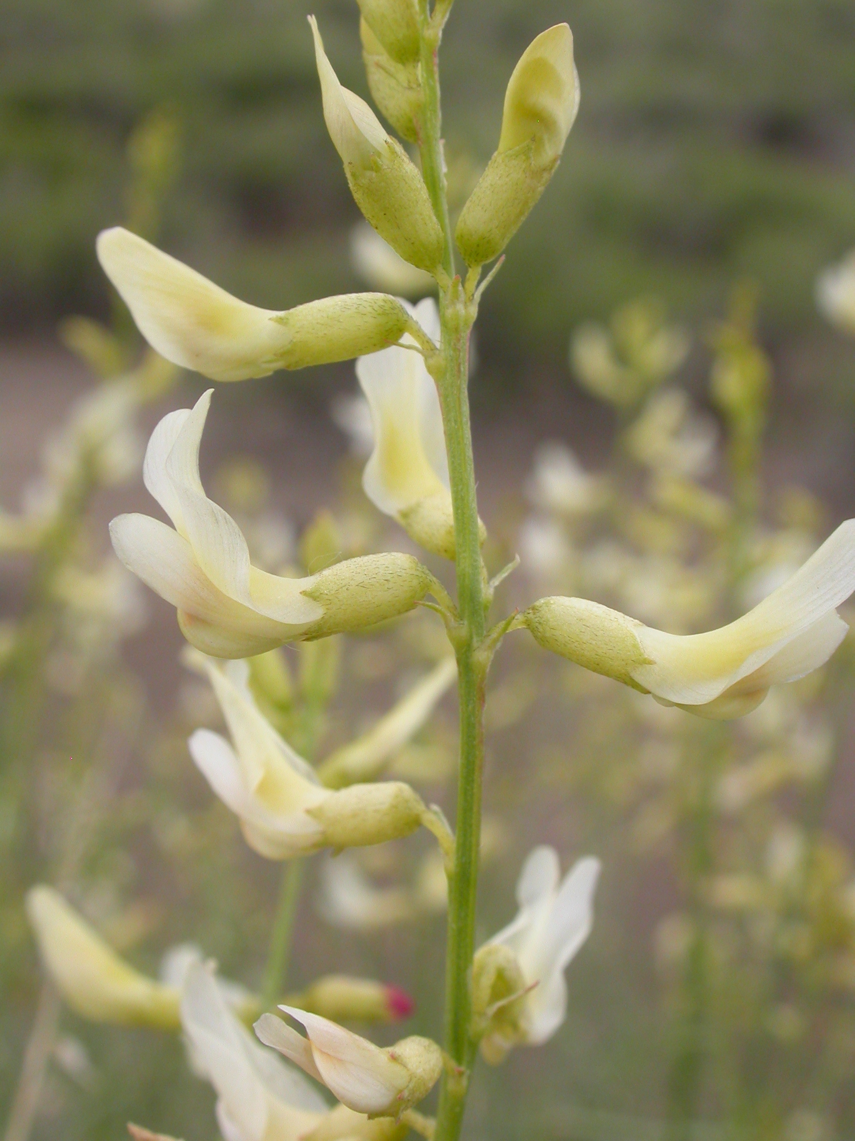 This is one of the most common Astragalus species in this area where it inhabits a diversity of substrates, elevations, and disturbance regimes. The stems from the previous year form conspicuous bunches from which sprout the current years growth.